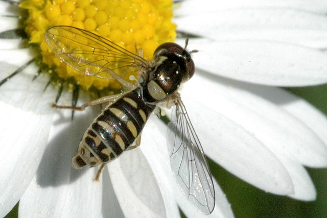 Sphaerophoria fatarum from Commanster, Belgian High Ardennes .